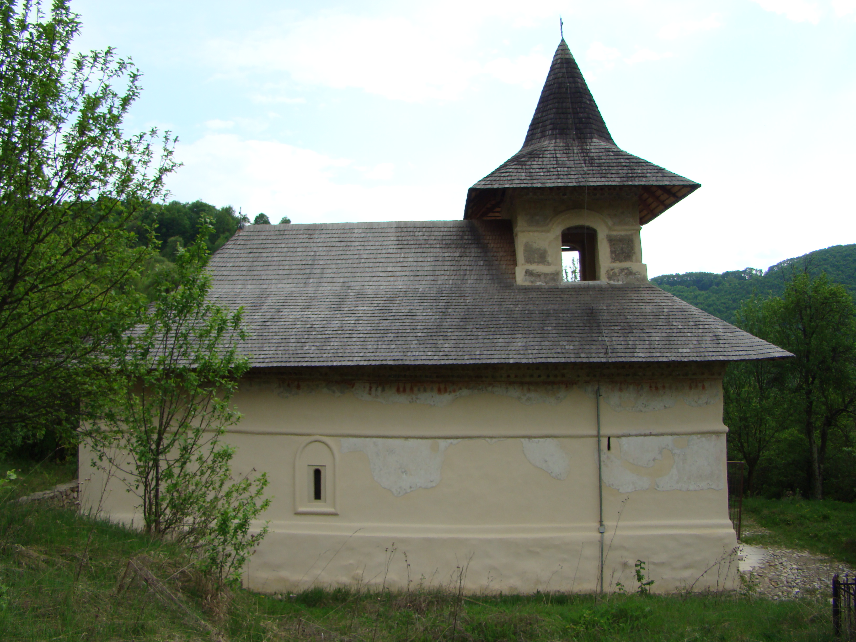 the former monastery church in Geoagiu de Sus, Alba County, Romania